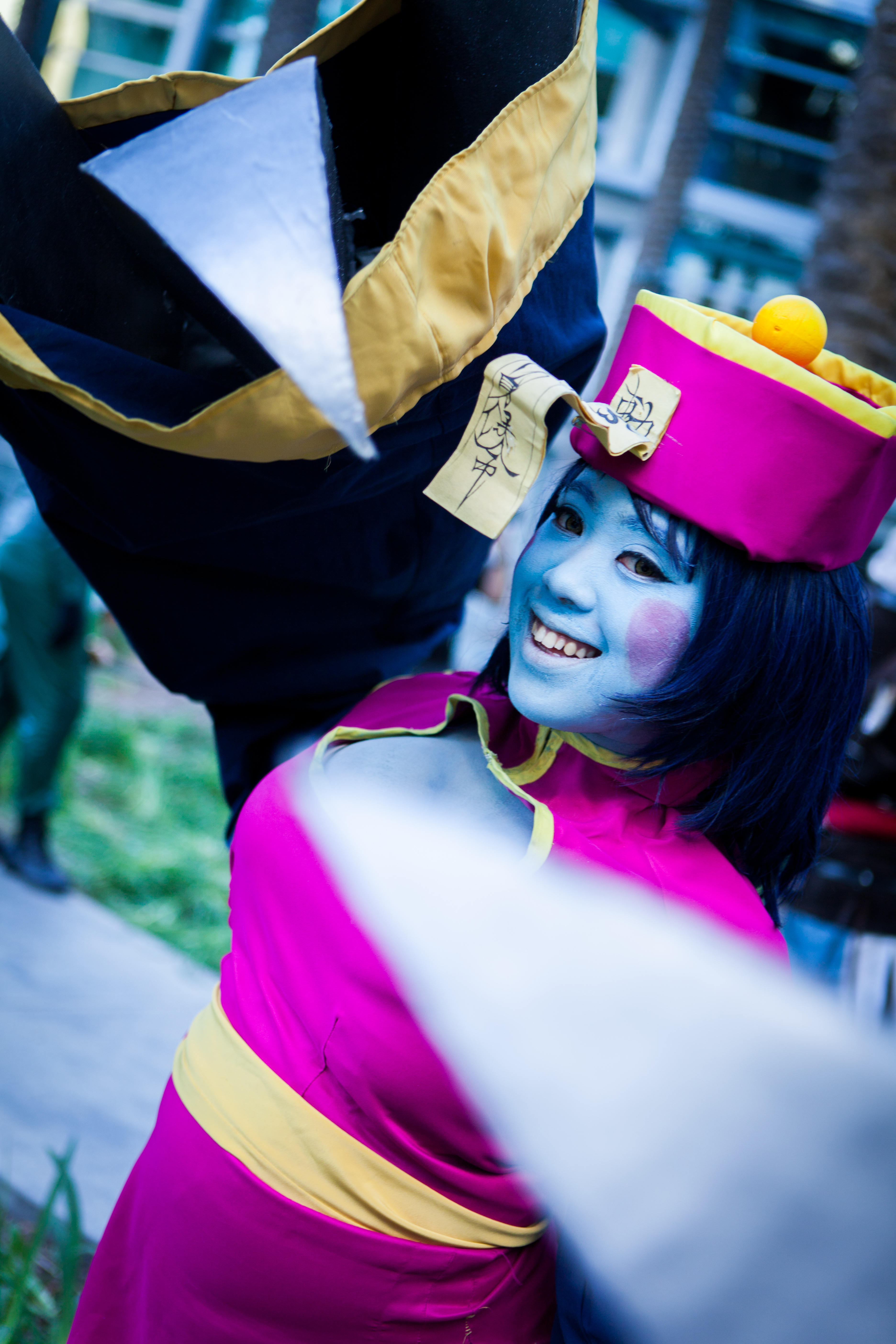 Wondercon 2015-7284